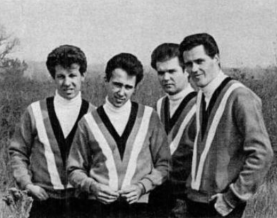 Trade ad for The Hondells's single "Sea Cruise".To better adapt it to his respective Wikipedia article, the ad was cropped and cleaned in a graphics editing program. The original can be viewed at the source below.